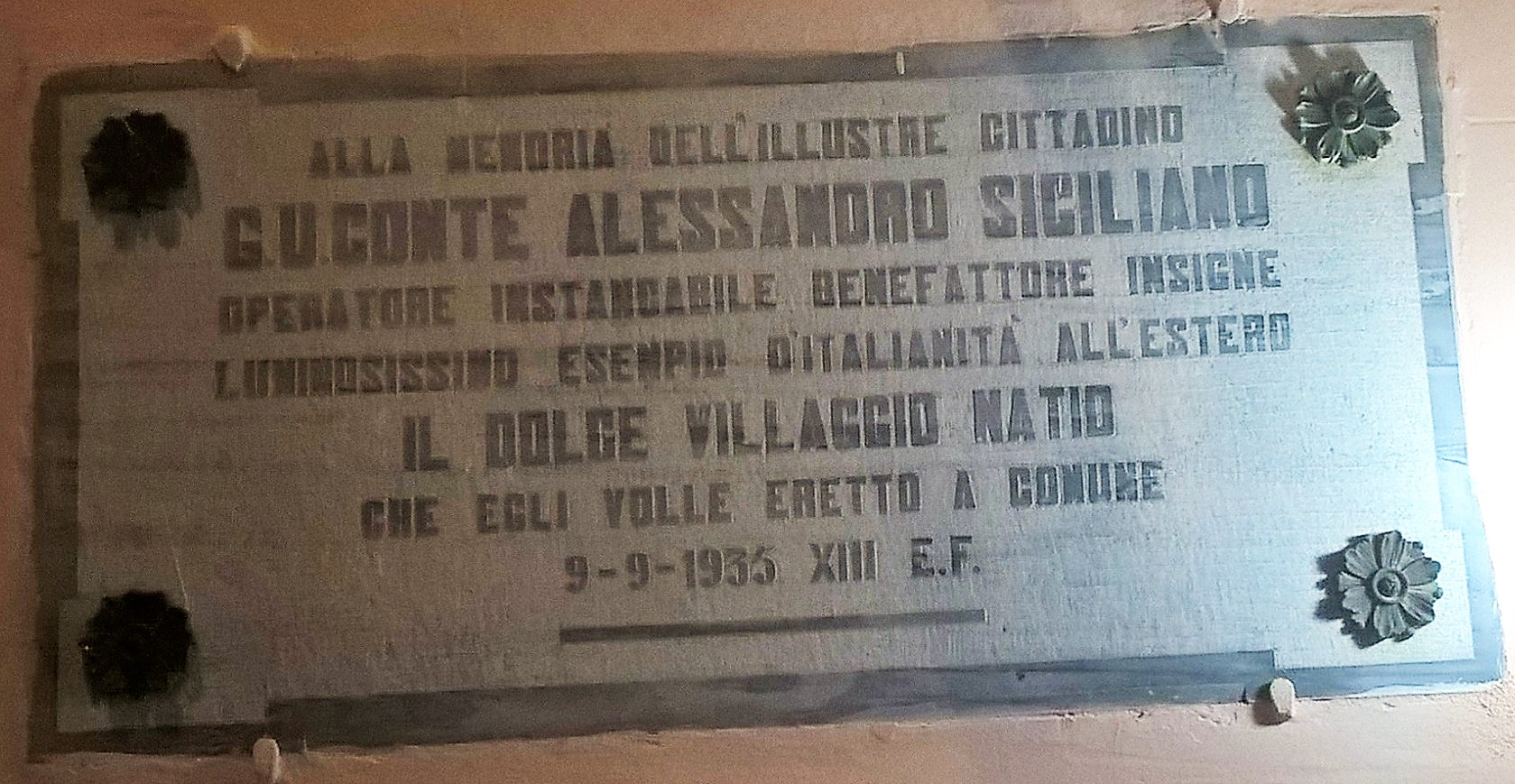 Marble plate of Alessandro Siciliano in Siciliano square, San Nicola Arcella (Italy)